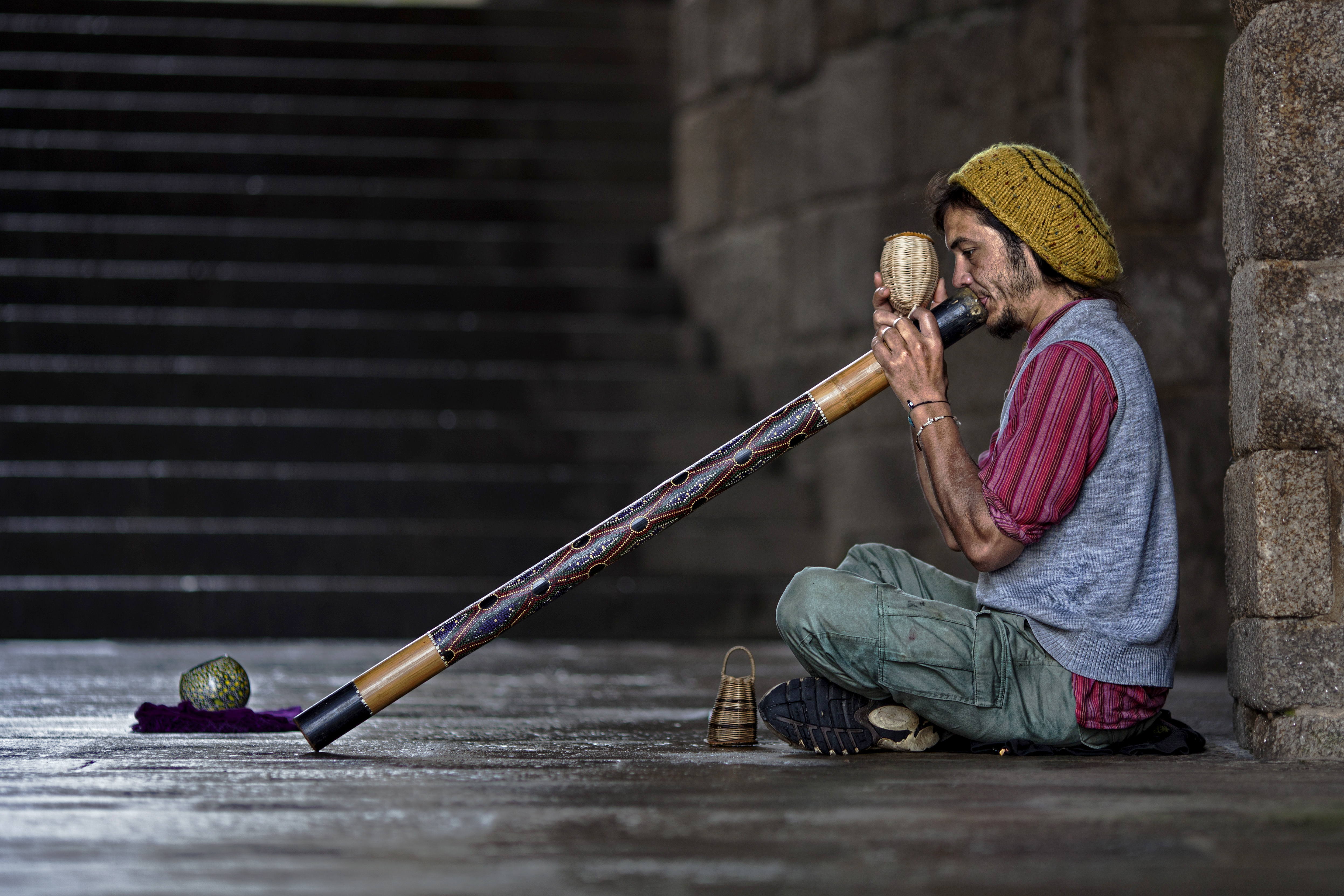 Digeridoo street player, Santiago de Compostela, Spain